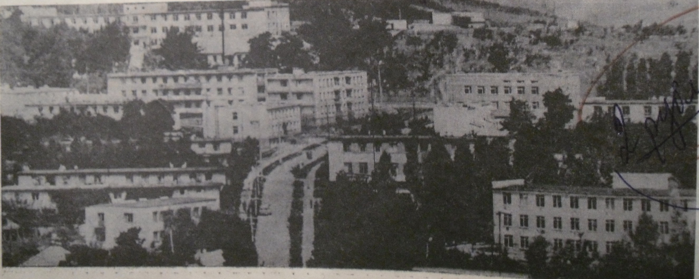 Cimislia. 1976.